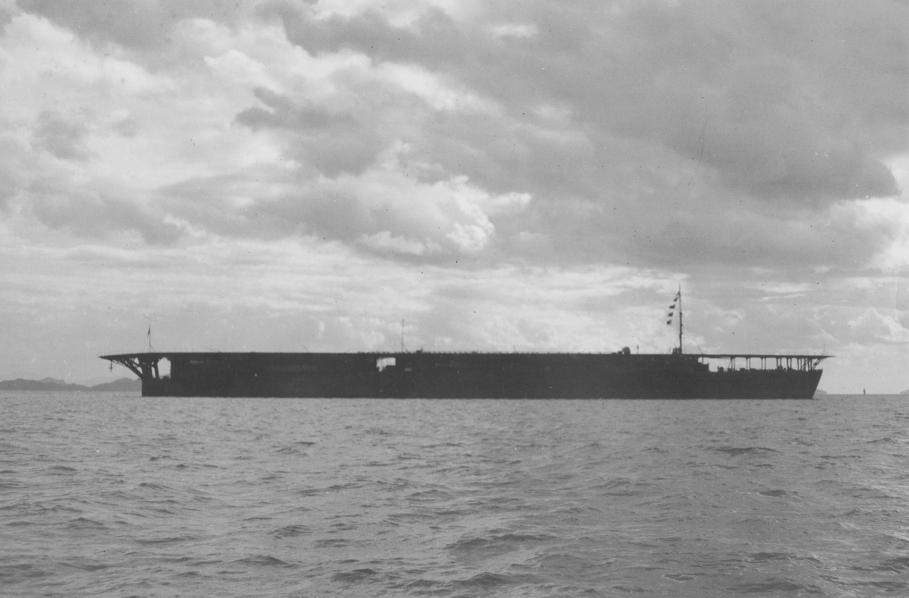 Imperial Japanese Navy aircraft carrier Hōshō at Kure, Japan in 1945 after the end of World War II.